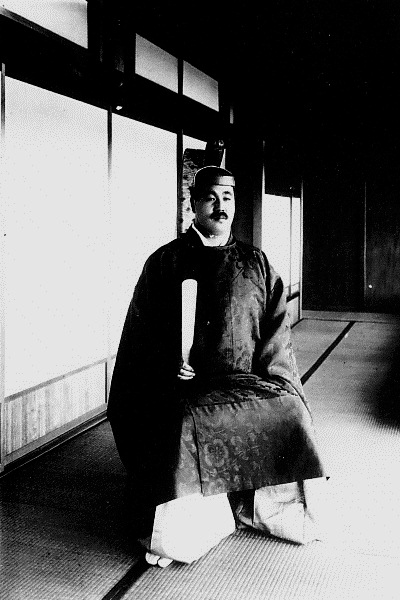 Toshiatsu Nambu